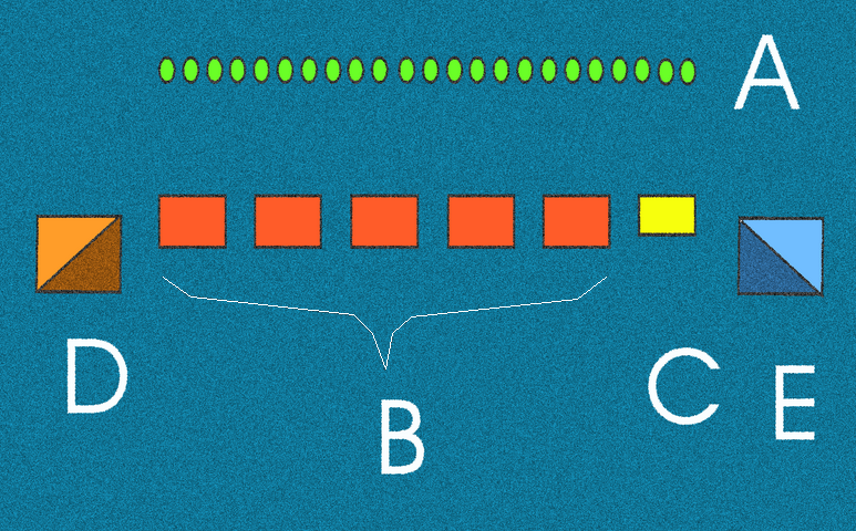 Ancient Macedonian phalanx formation : A) ; B) ; C) ; D) ; E) (Was used: Milittary Enciclopedia – VIZ - Belgrade - 1971. - Part 2, page 742).